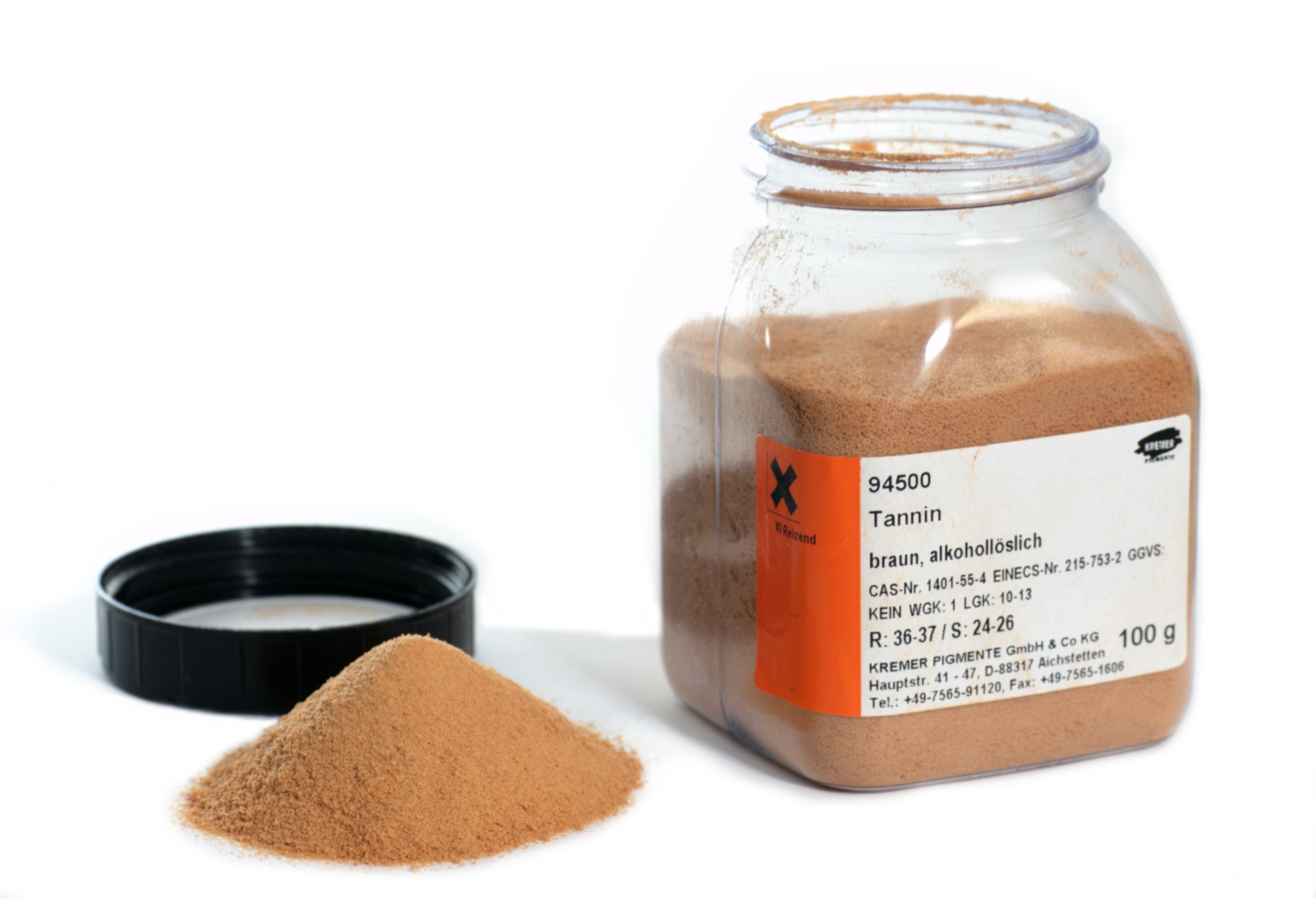 Tannin